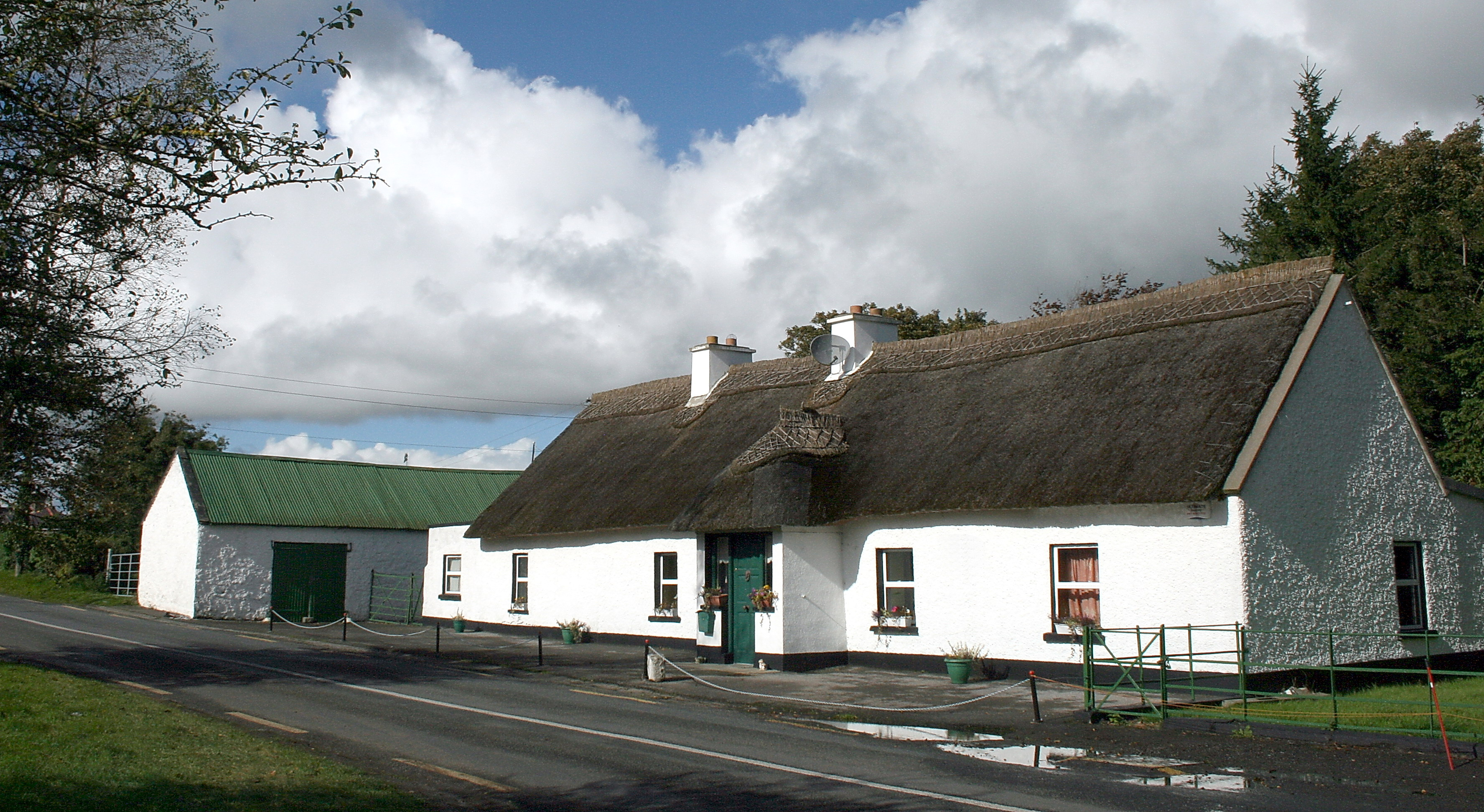 Colehill, County Longford (2), near to Abbeyshrule, Ireland. Farmhouse on the R399 in Colehill.